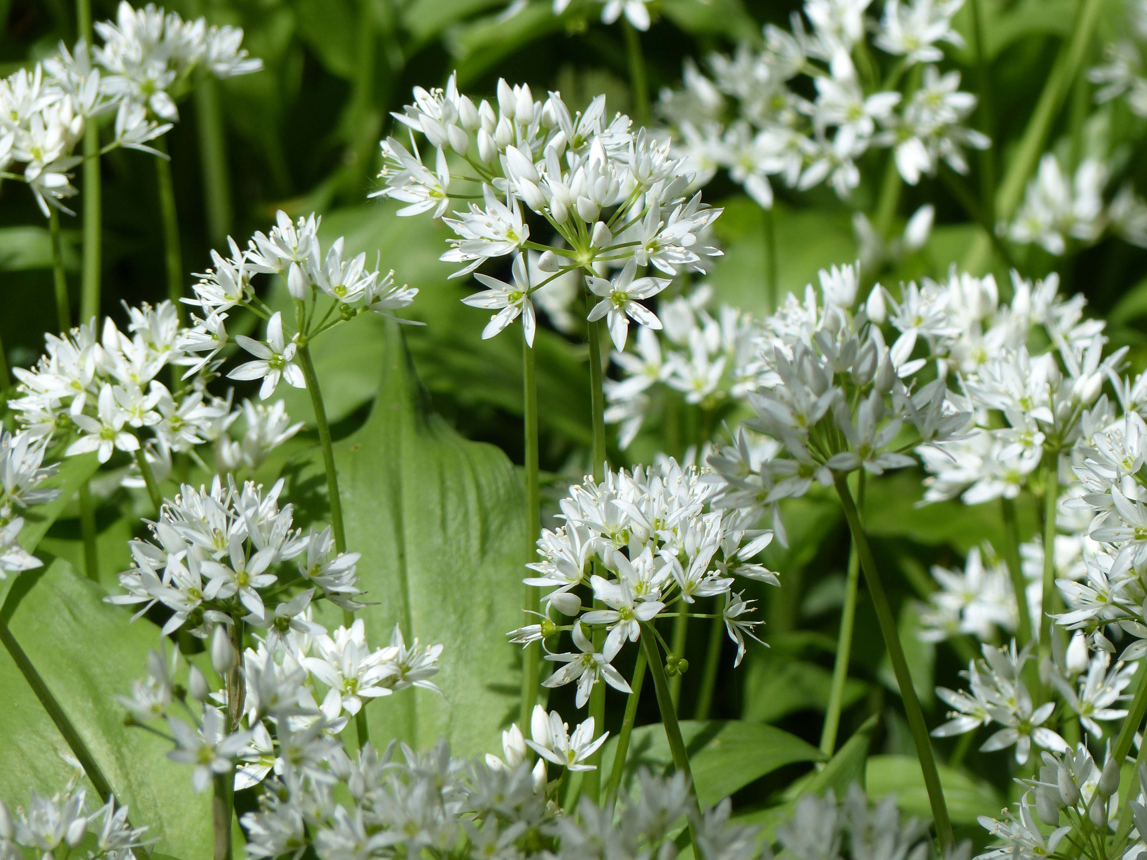 Wild garlic (Allium ursinum) growing in spring, in woodland at Combe Dingle, Bristol, England.